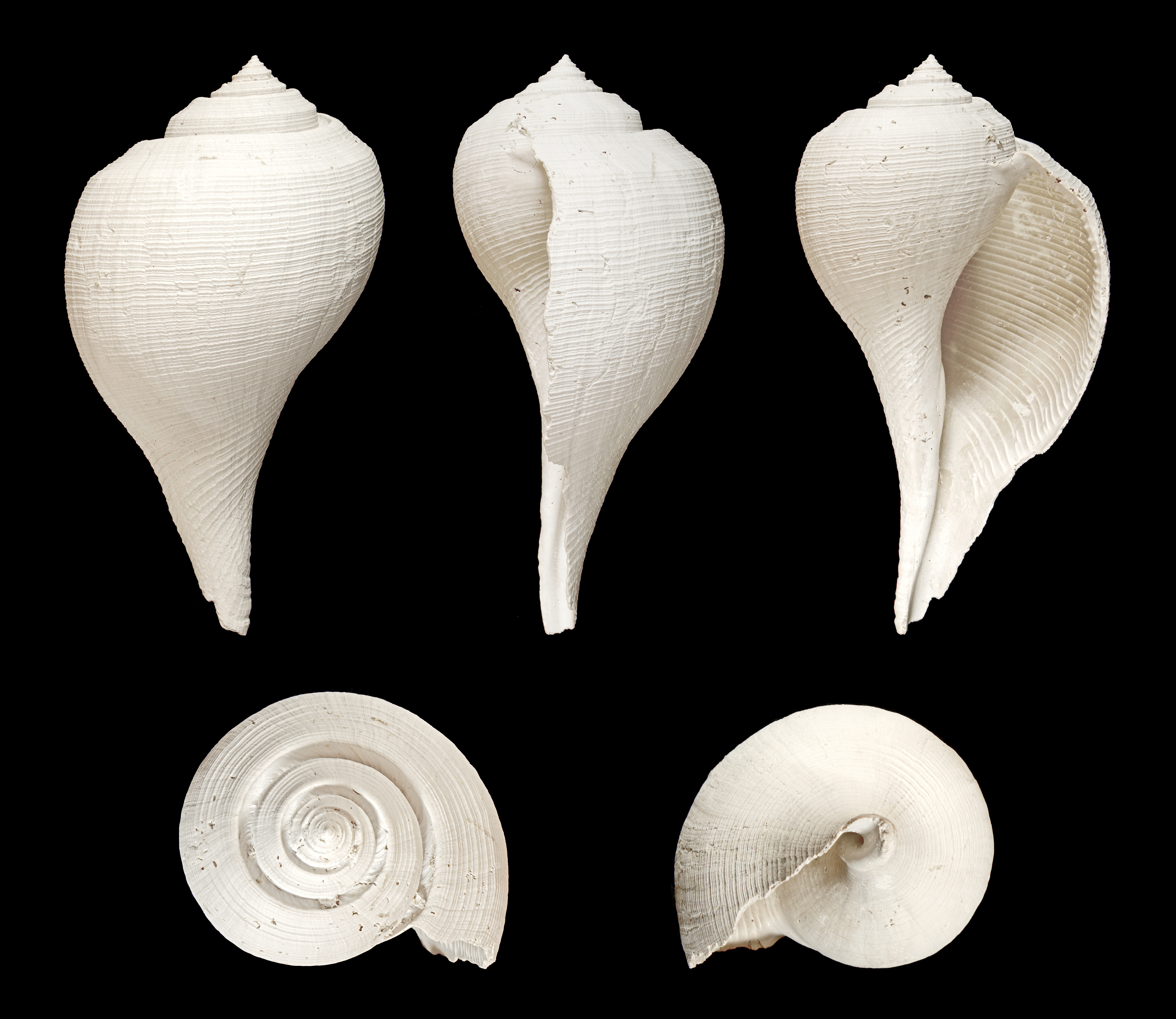 Length 11.5 cm; Tertiary, Pliocene, La Belle, Florida, USA; Shell of own collection, therefore not geocoded. Dorsal, lateral (right side), ventral, back, and front view.